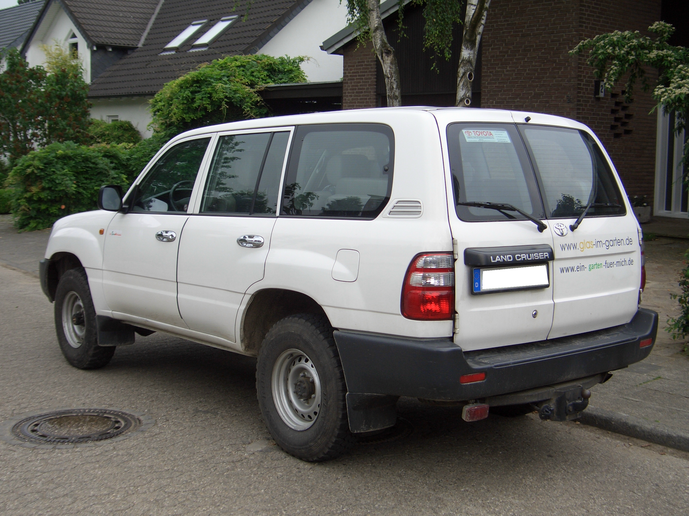 Toyota Land Cruiser HZJ 105, the heavy duty variant of the 100 series sold only to UN organisations and other Aid & Humanitarian agencies by TGS, the Gibraltar Toyota subsidiary. Service people driving the 105 on their missions are sometimes allowed to buy the car afterwards for further civilan use; this one seen in Duesseldorf, Germany.